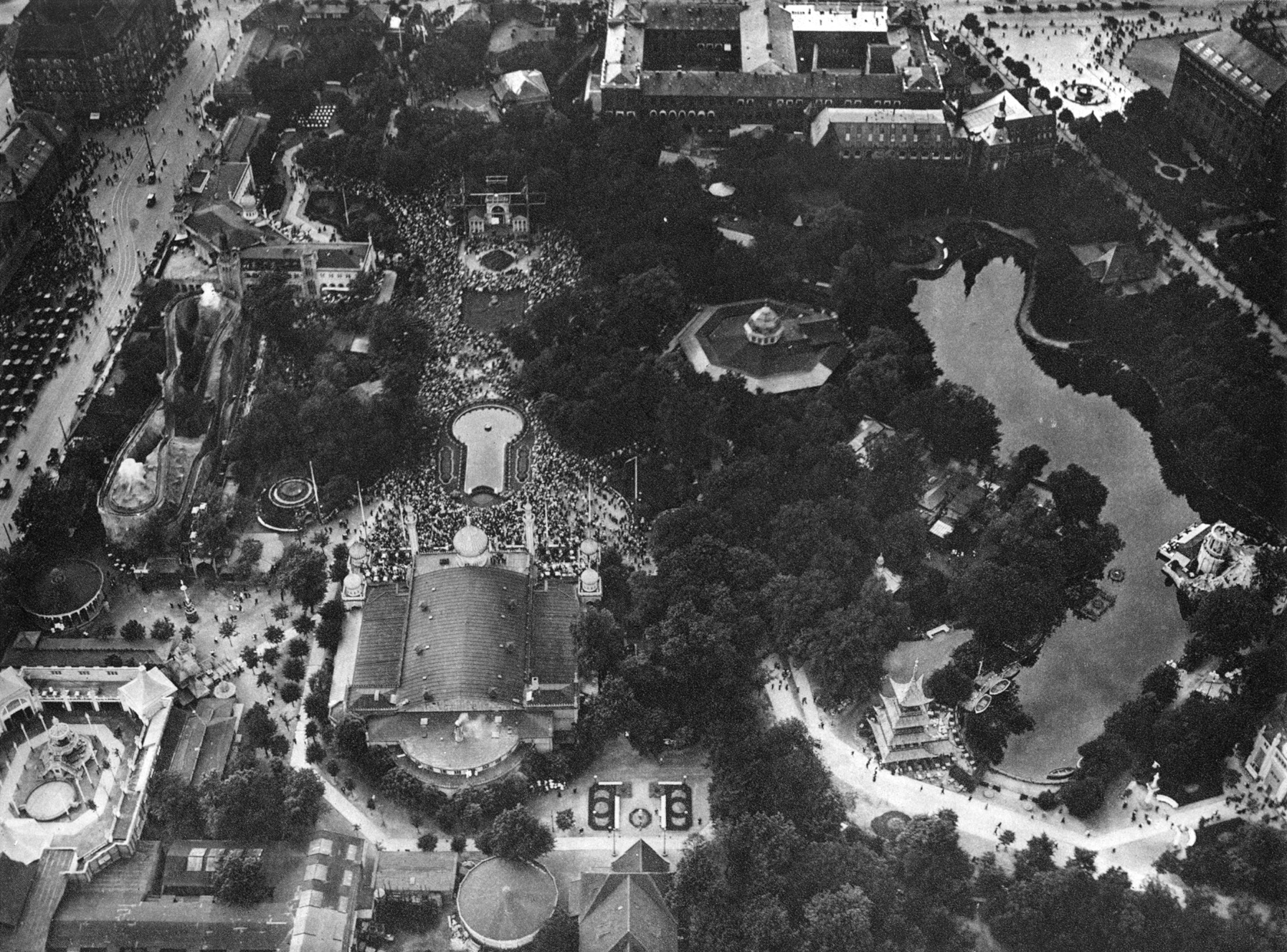 Eduard Spelterini (1852 - 1931). The Tivoli gardens at Copenhagen, photographed from a balloon.